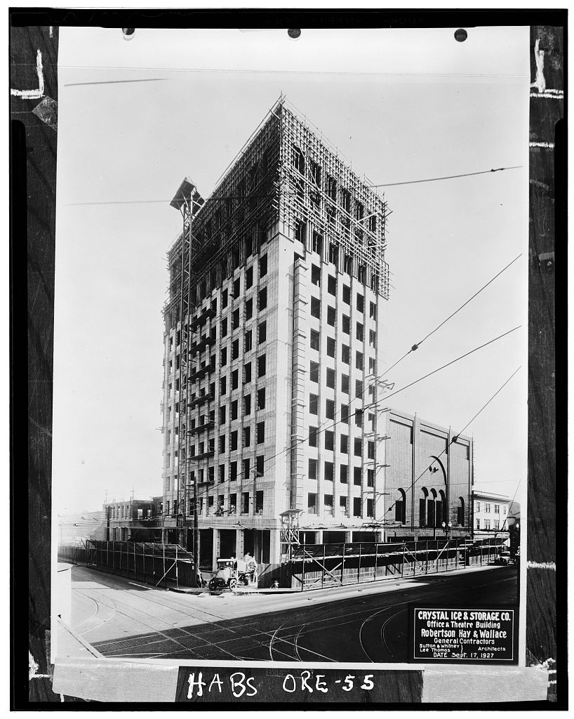 Weatherly Building (left) and Oriental Theatre — in Portland, Oregon. "WEATHERLY BUILDING AND ORIENTAL THEATRE BEFORE BRICK AND TERRA-COTTA CLADDING." Oriental Theatre built in 1927 and demolished in 1970. 1927 photograph from the HABS—Historic American Buildings Survey images of Oregon. Credits File caption: 24. Historic American Buildings Survey, Stevens Commercial Photographers, September 17, 1927 Photocopy by Lyle E. Winkle, 1969. WEATHERLY BUILDING AND ORIENTAL THEATRE BEFORE BRICK AND TERRA-COTTA CLADDING. HABS ORE,26-PORT,3-24